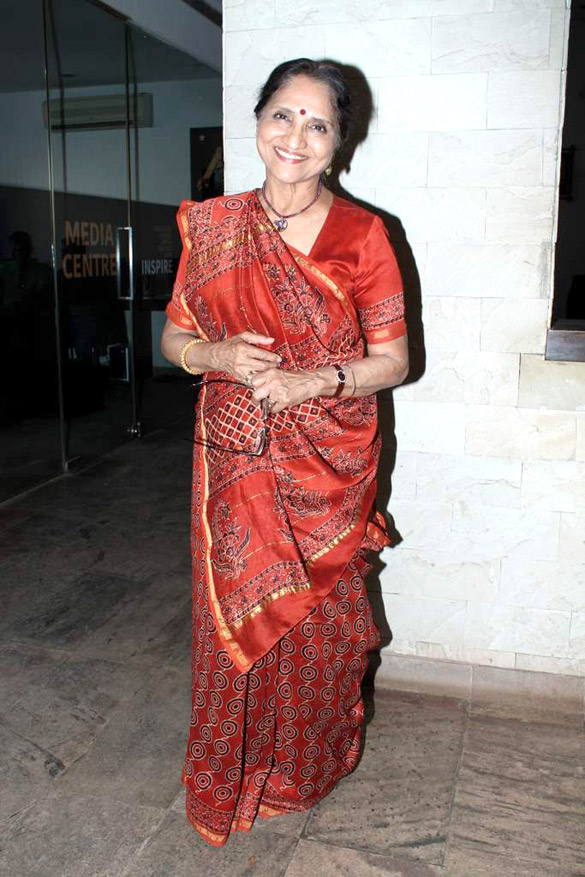 Photo Of Sarita Joshi From The Celebs grace the Kashish Film Festival press meet